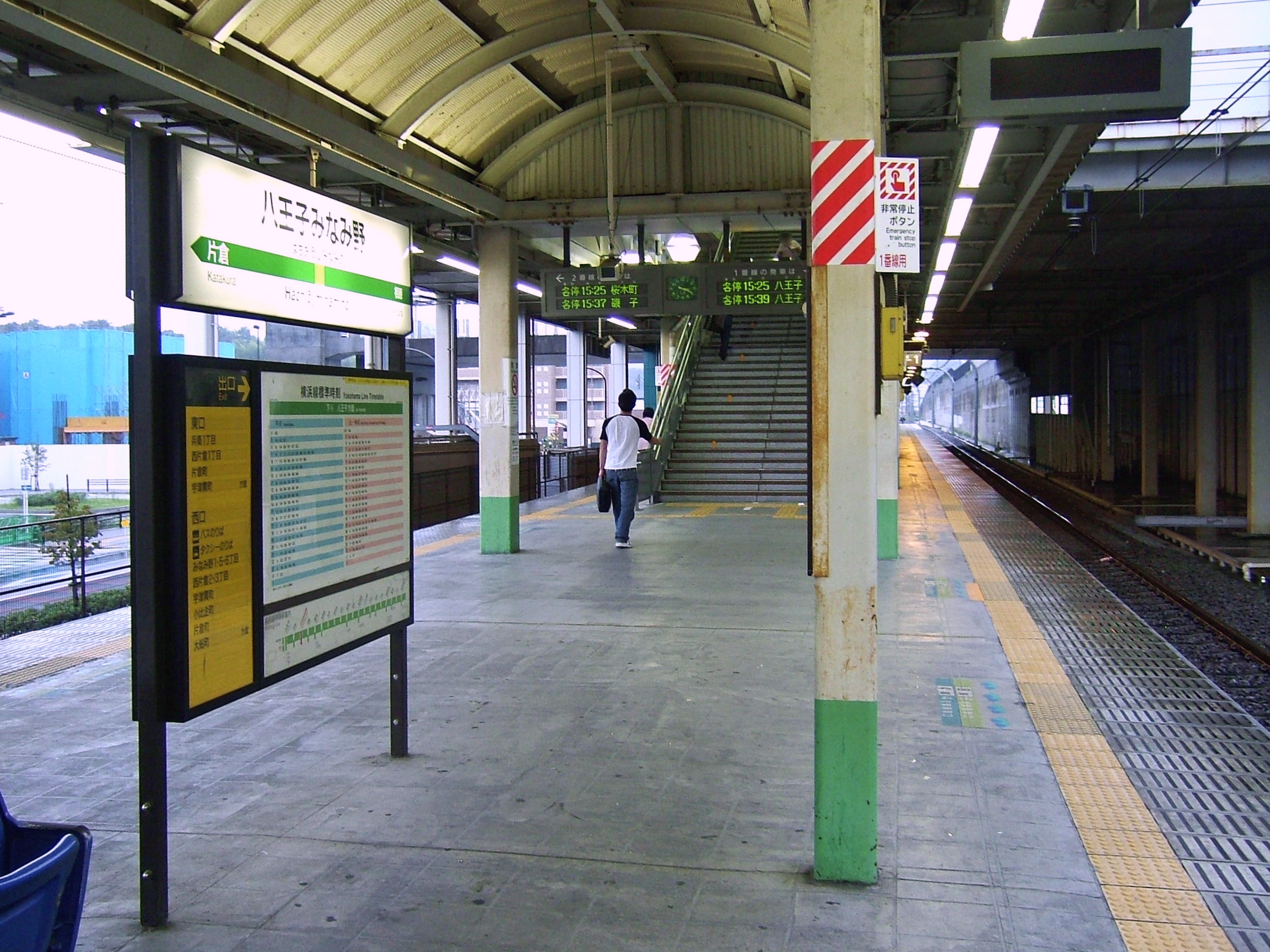 The platform at Hachiōji-Minamino Station on the Yokohama Line in Tokyo, Japan